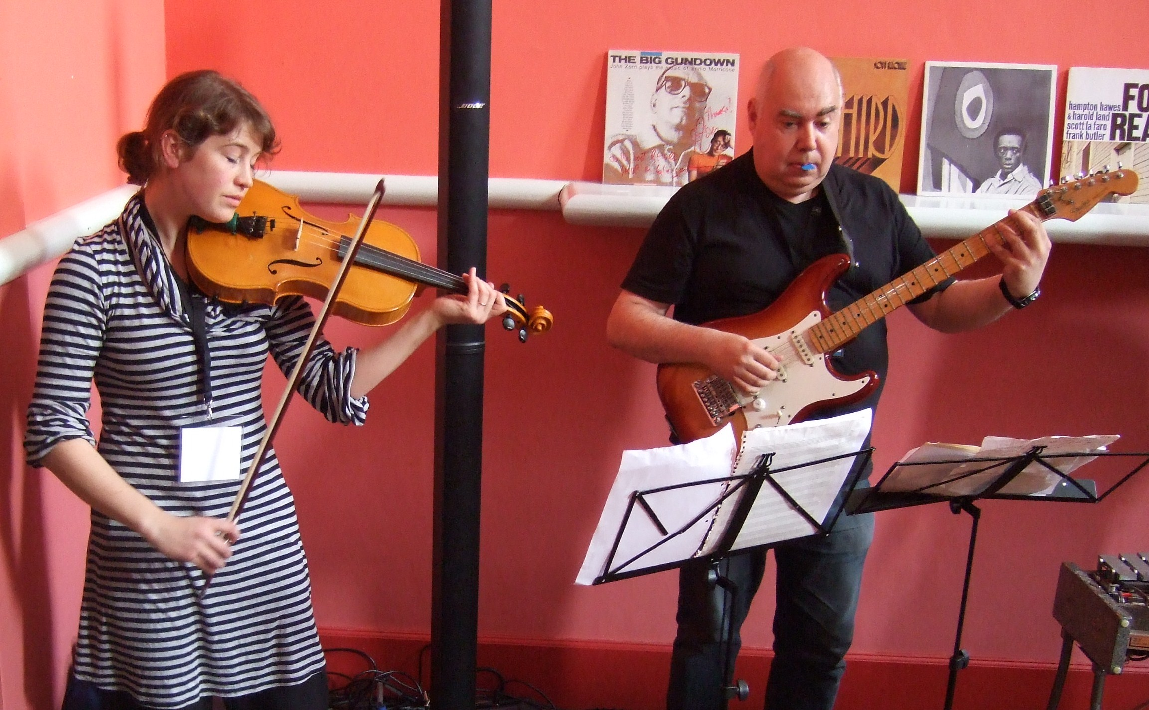 Bill Wells and viola player Aby Vulliamy